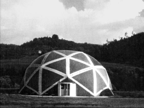 The so called "Teatro d'Aria" in Pontassieve, Florence, where the group "Chille de la Balanza" worked for a while. Construction and photo by Hans-Walter Müller.